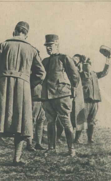 General Luigi Cadorna, Commander-in-Chief of the Italian army, on the Trento front, amongst his staff.